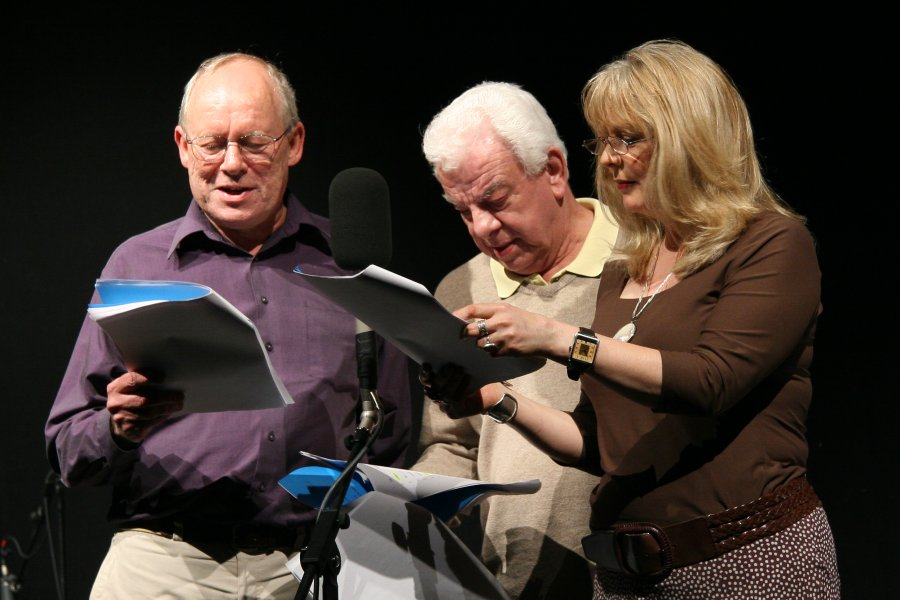 Graeme Garden, Barry Cryer and Alison Steadman (left-to-right) during a recording of the BBC Radio 4 programme You'll Have Had Your Tea.